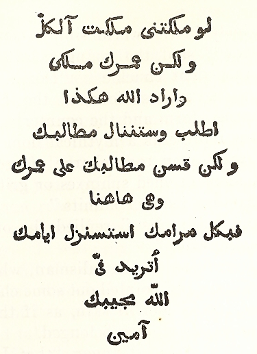 "Oriental" writing printed in Honore de Balzac's novel La Peau de chagrin. One character refers to it as "Sanskrit", but it is in fact Arabic.